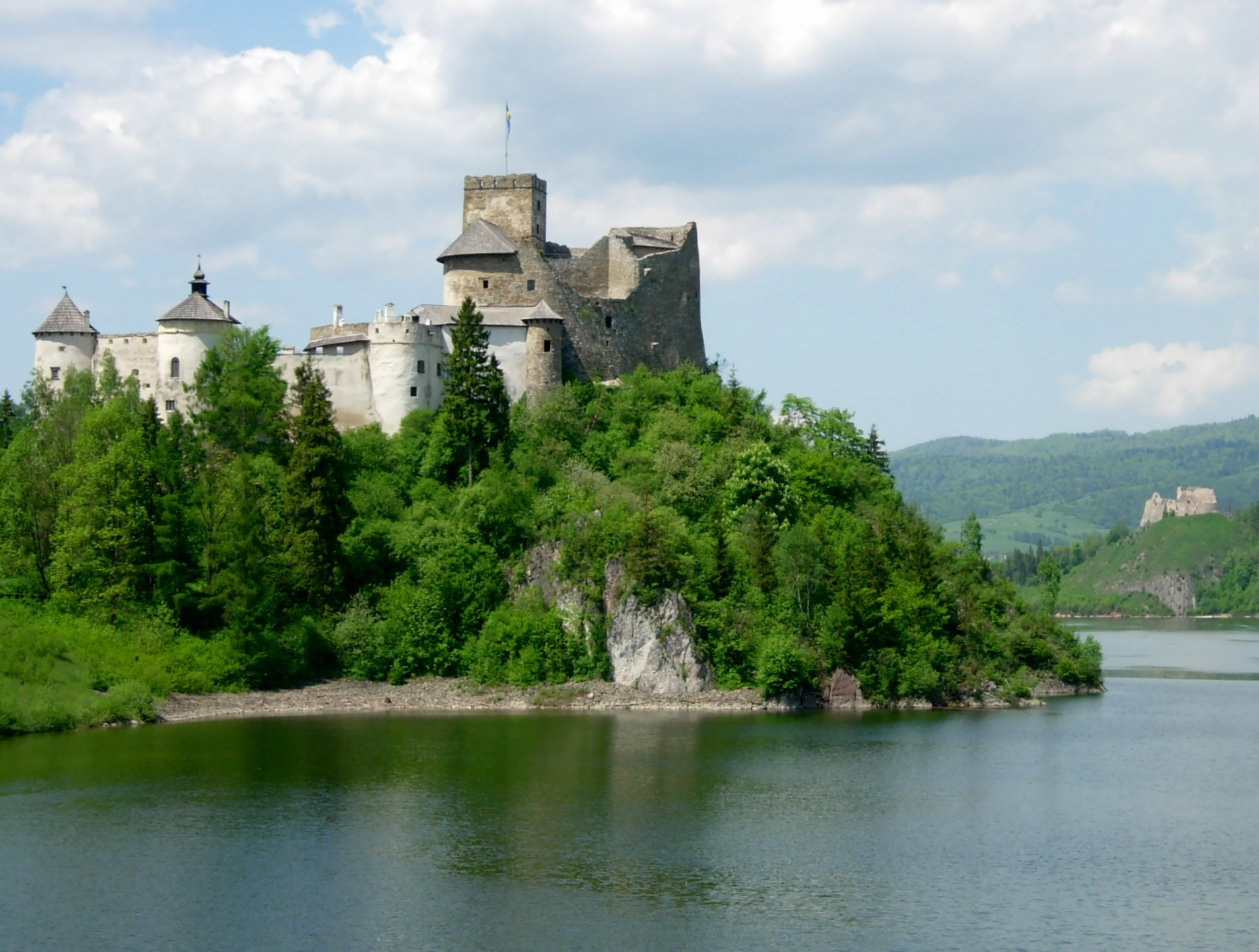 Castles in Niedzica and Czorsztyn